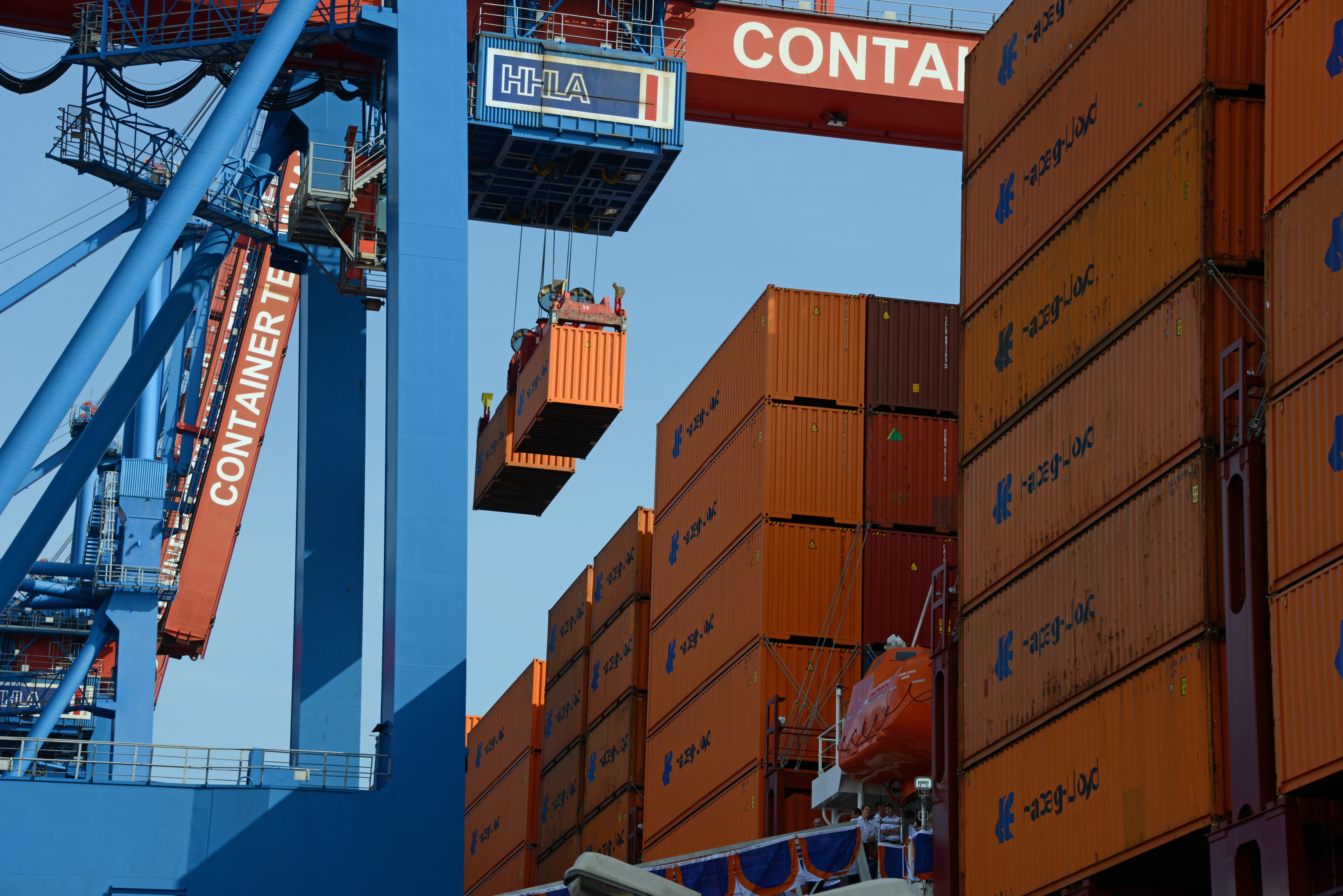 Loading Container in Hamburg harbour